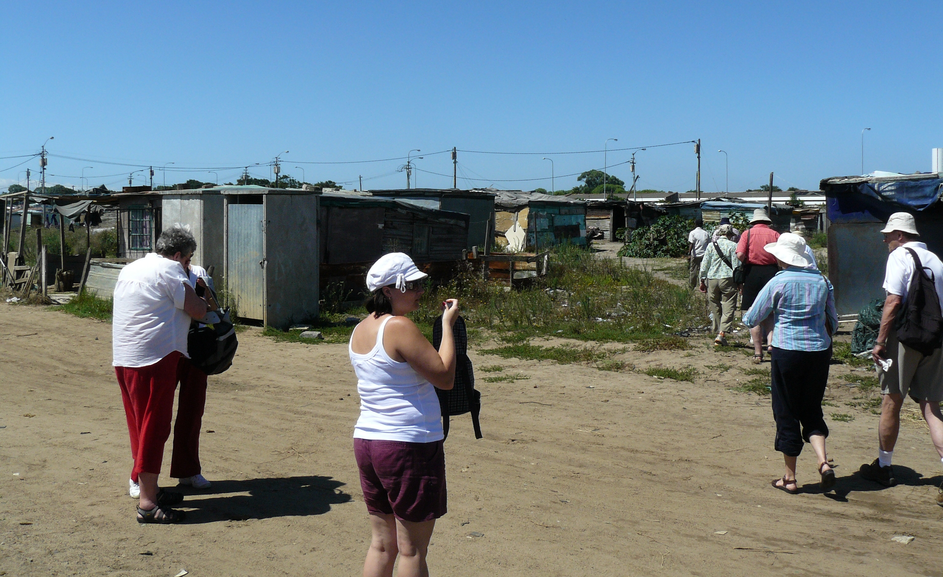 Tourists visit shacks in Khayelitsha